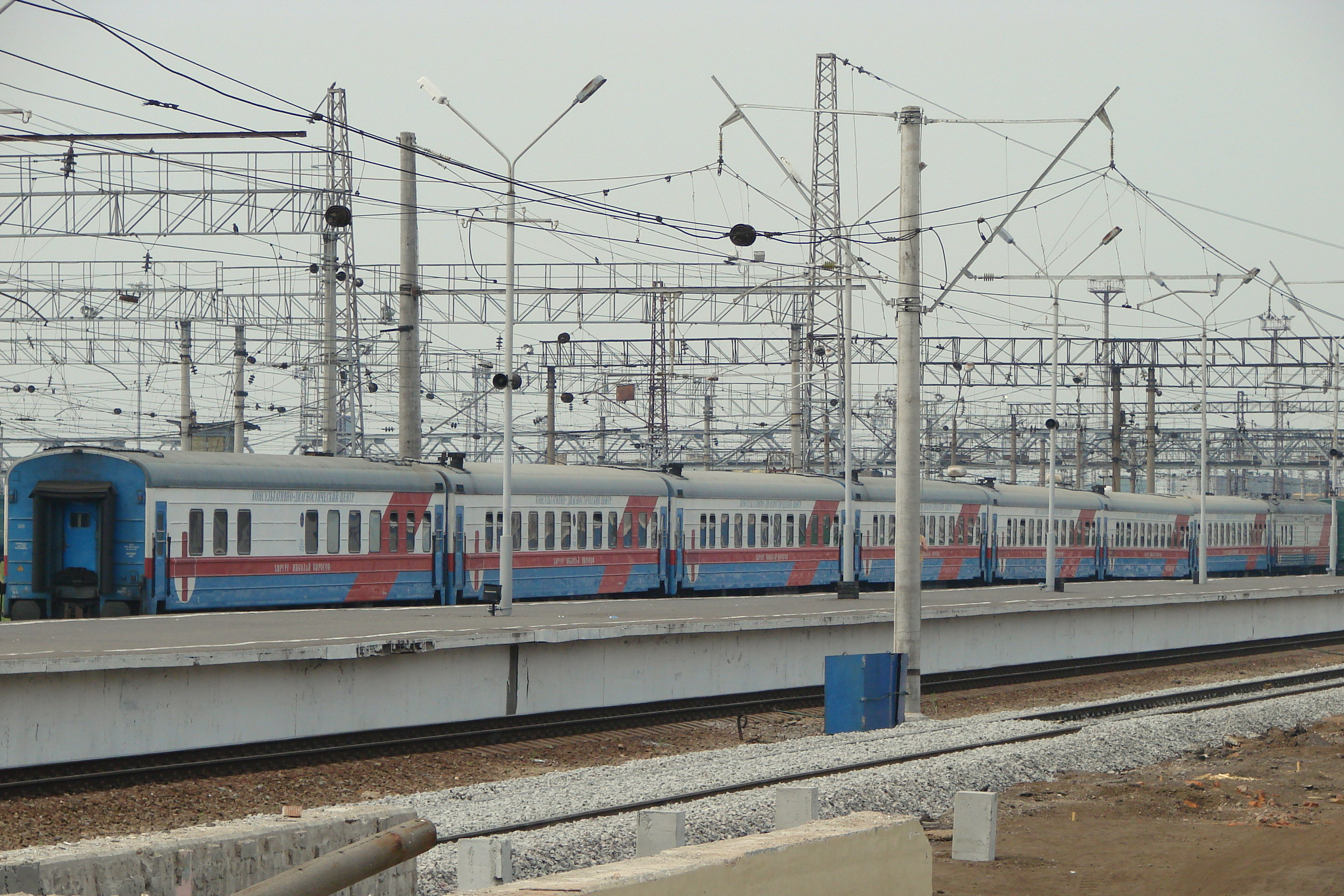 Russia, Yaroslavl, medical train «Surgeon Nikolay Pirogov»